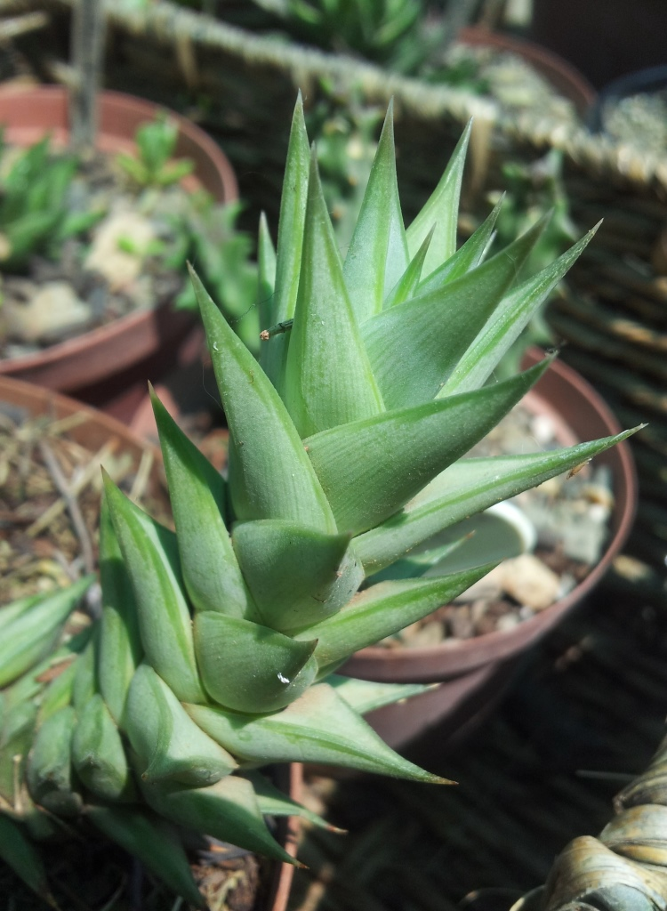 Astroloba herrei in cultivation. Prince Albert variety